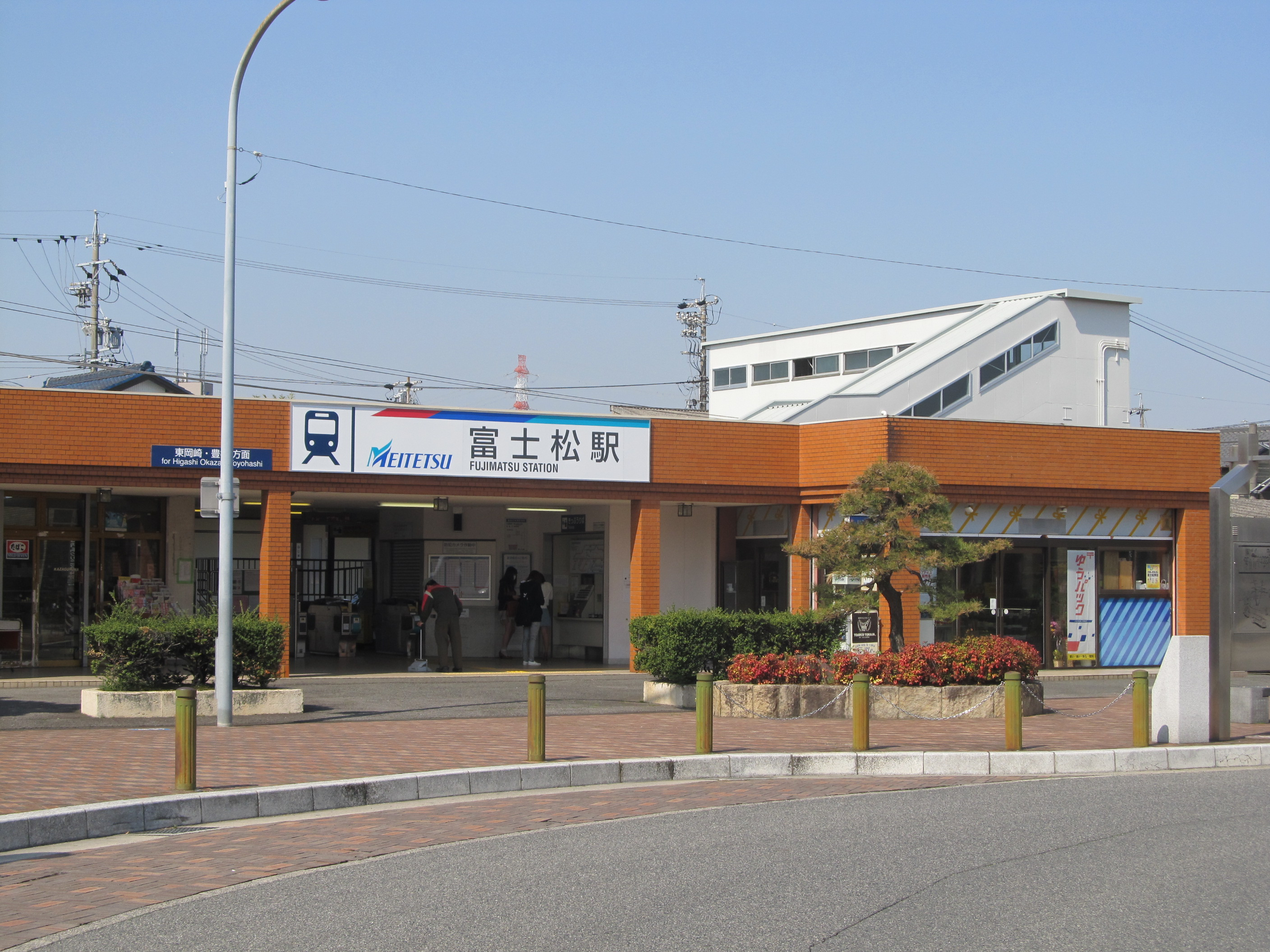 Nagoya Railroad Nagoya Main Line Fujimatsu Station North Gate